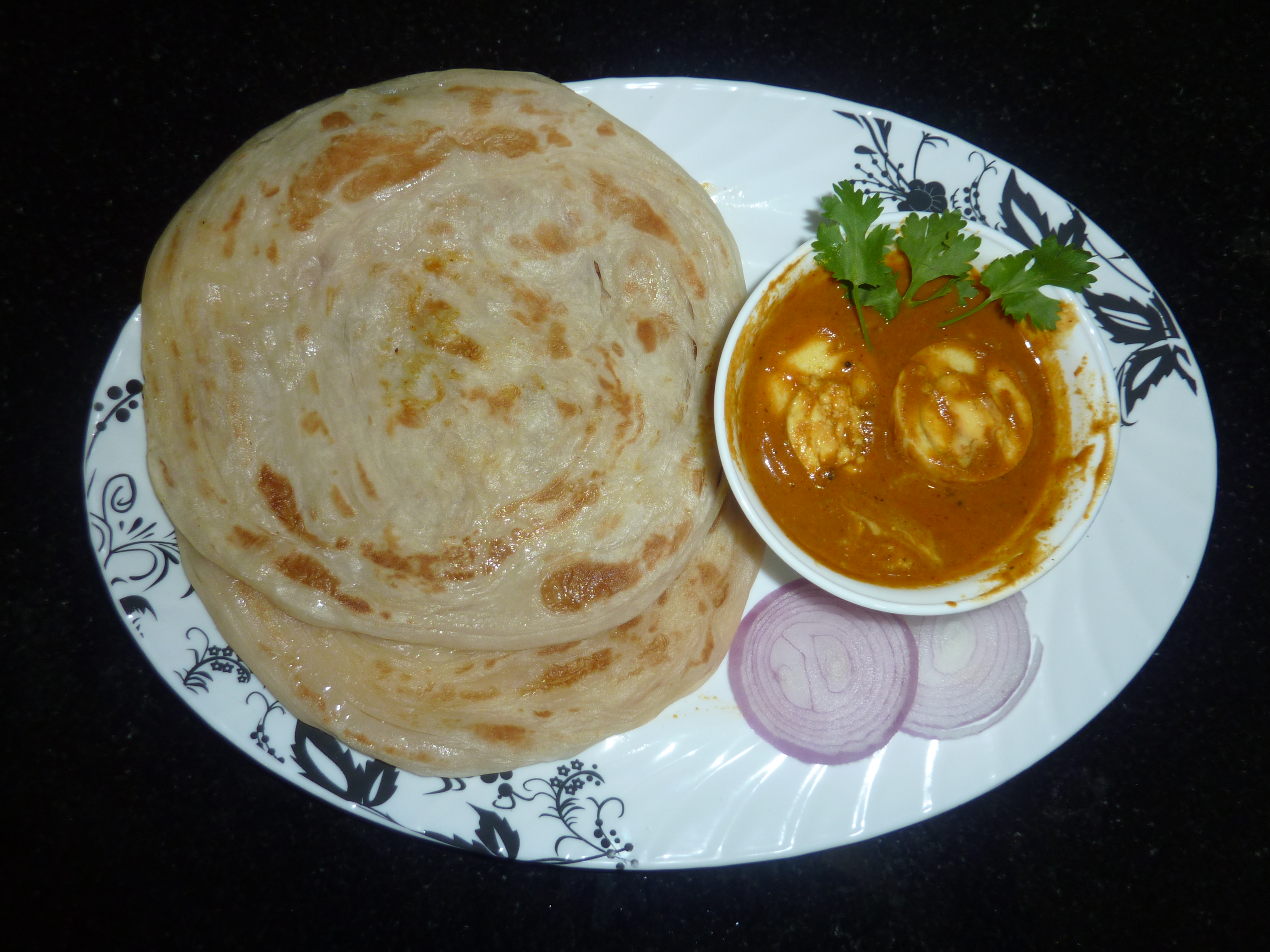 Parotta with Egg Kurma and Onion Slices